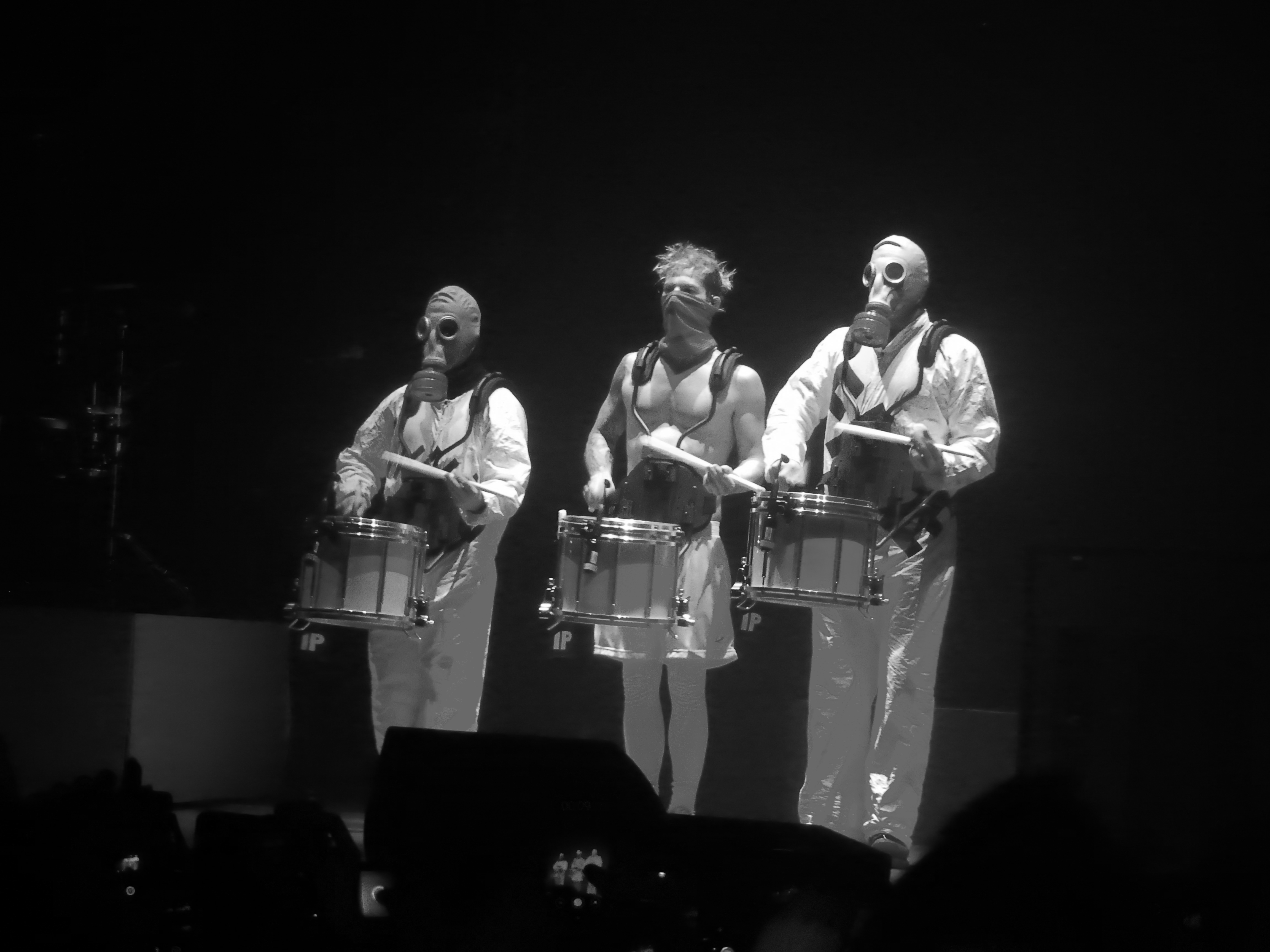 Twenty One Pilots, Alexandra Palace, London